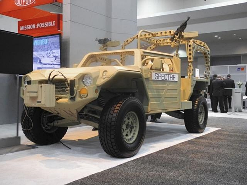 Shown at AUSA 2012